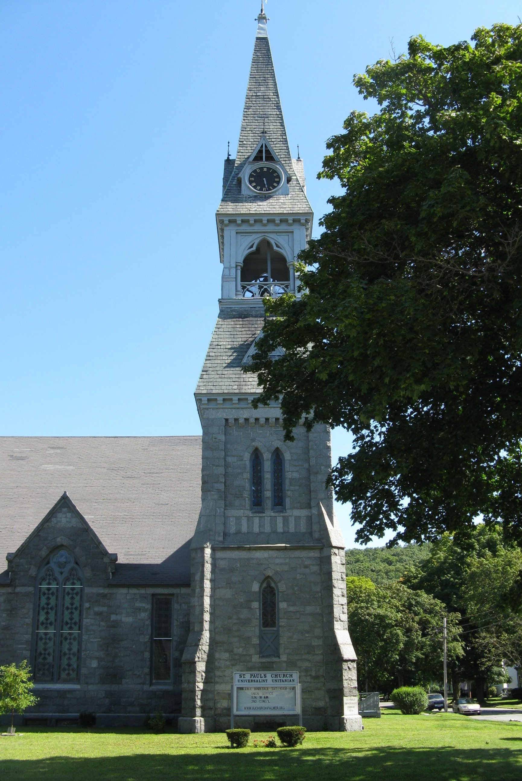 St Paul's Unitarian Universalist Church, Palmer Massachusetts